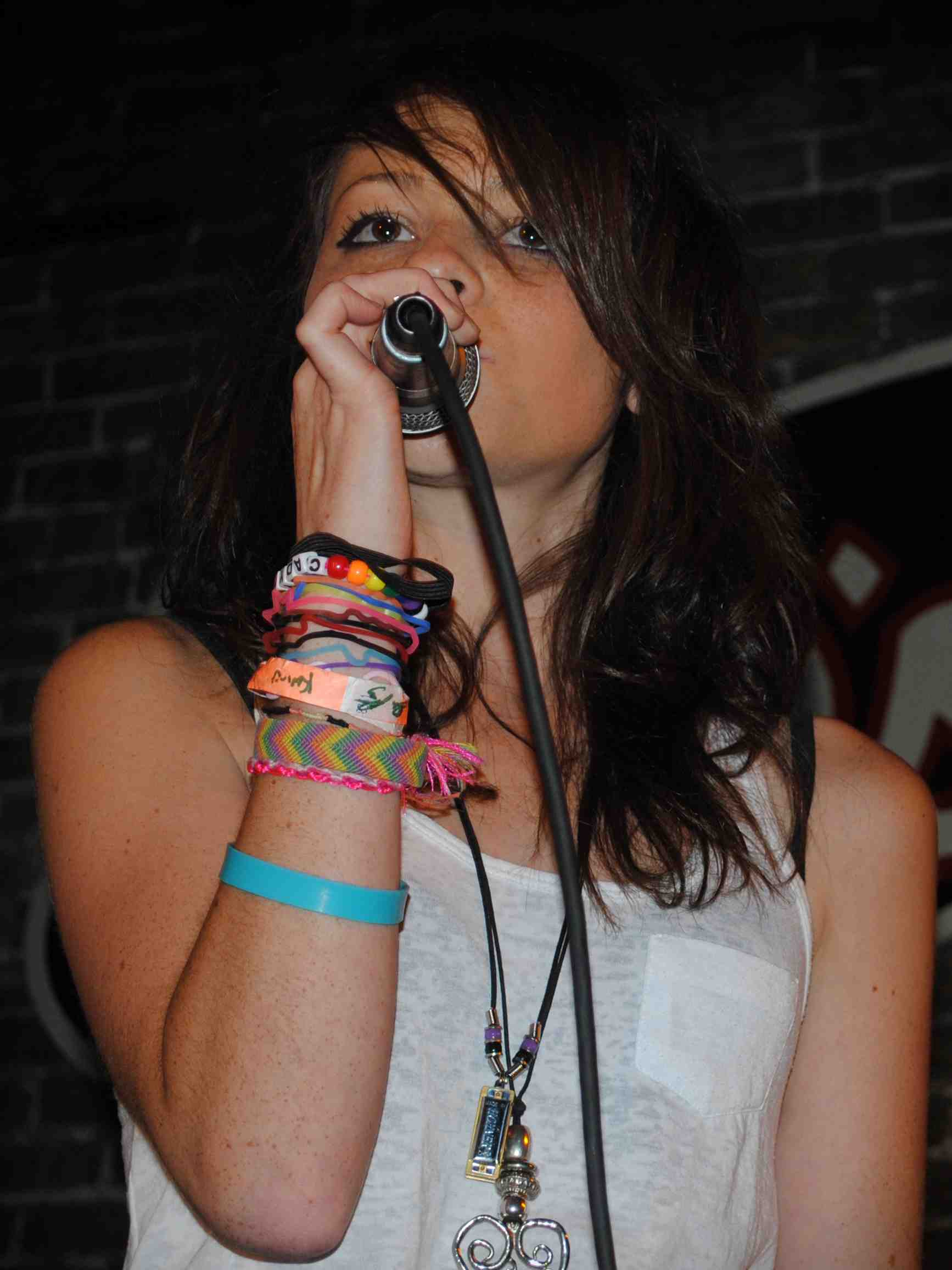 Singer and songwriter Cady Groves